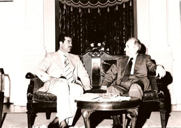 Baath Party founder Michel Aflaq with Iraqi President Saddam Hussein in 1979